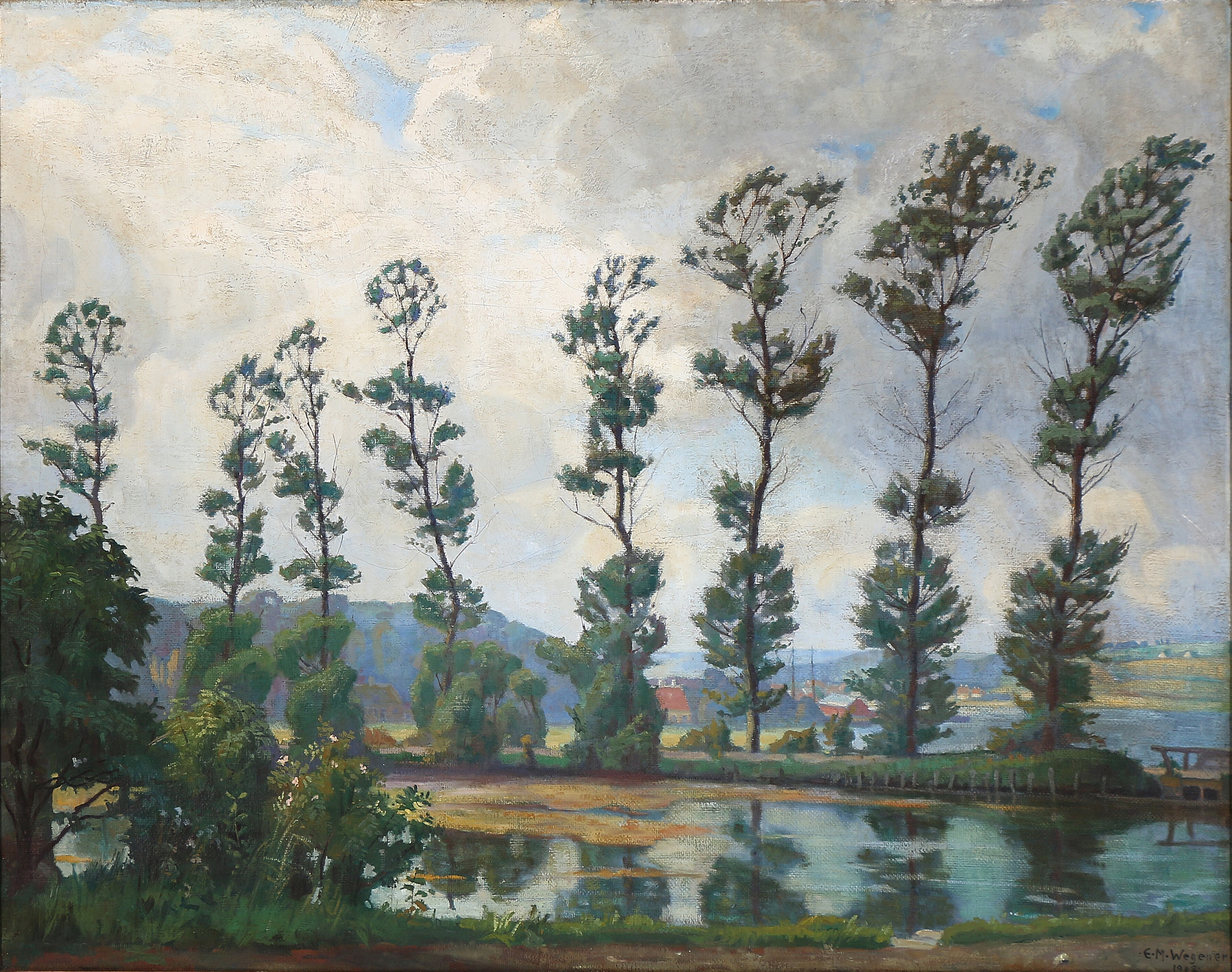 This painting was made while the artist still called herself Einar Mogens Wegener.